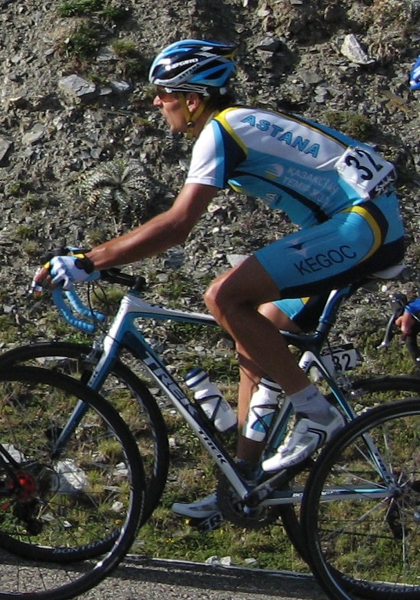 Andreas Klöden, 2008 Vuelta a España, 8th stage, Port de la Bonaigua, Spain.